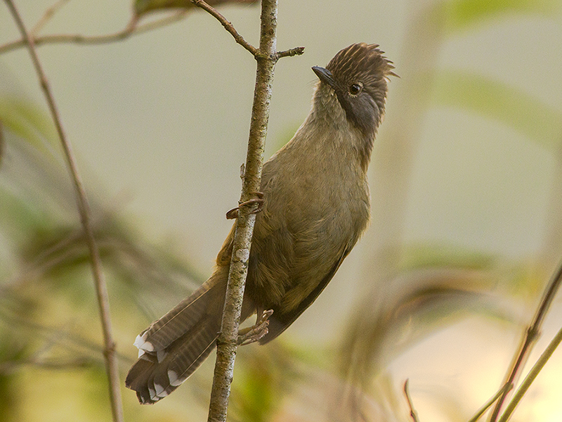 The species Hoary-throated Barwing had been photographed during the bird photography trip of GoingWild at Neora Valley National Park, West Bengal, India on 08.12.2015.